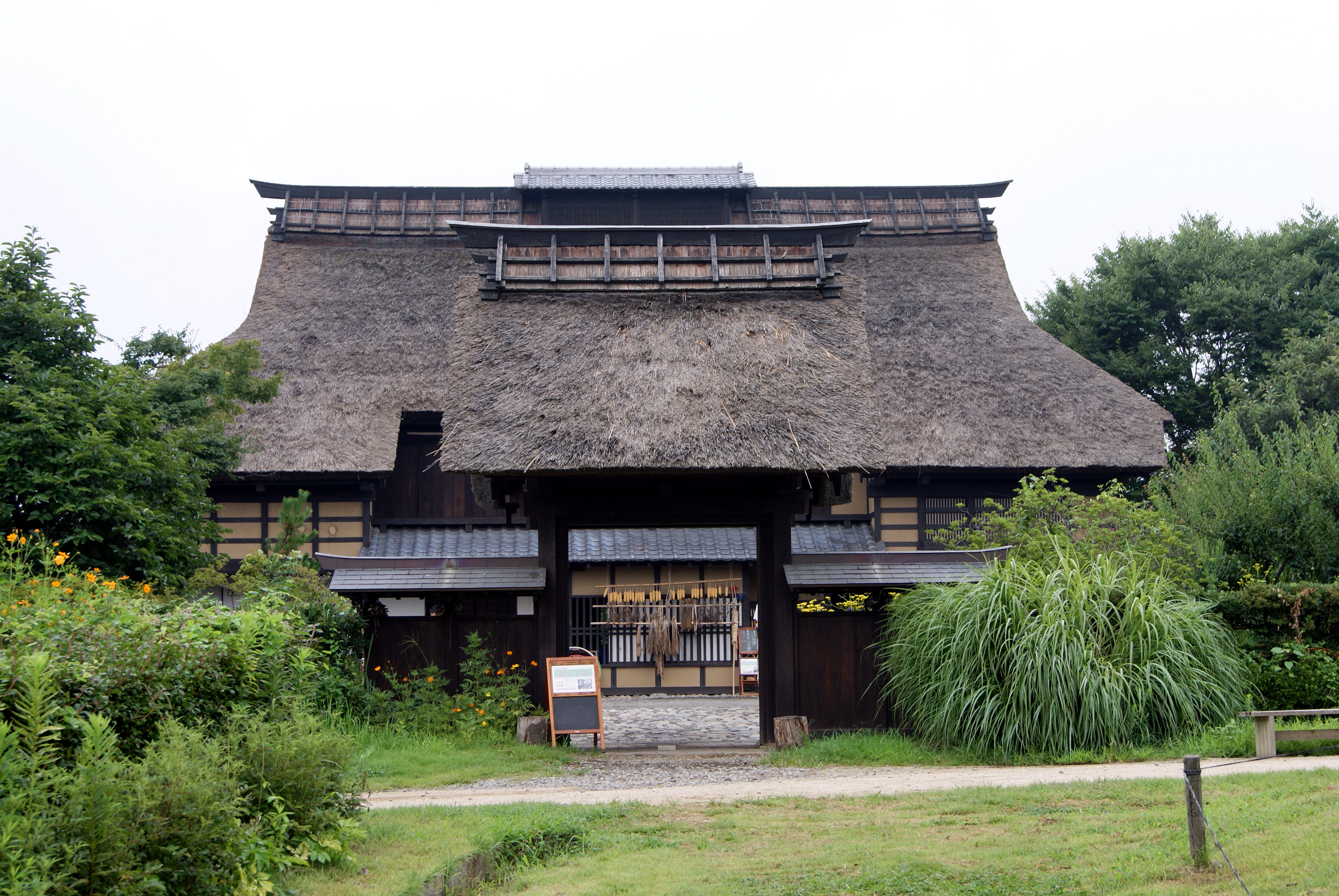 Minka of the Thatching at Gunma Insect World.